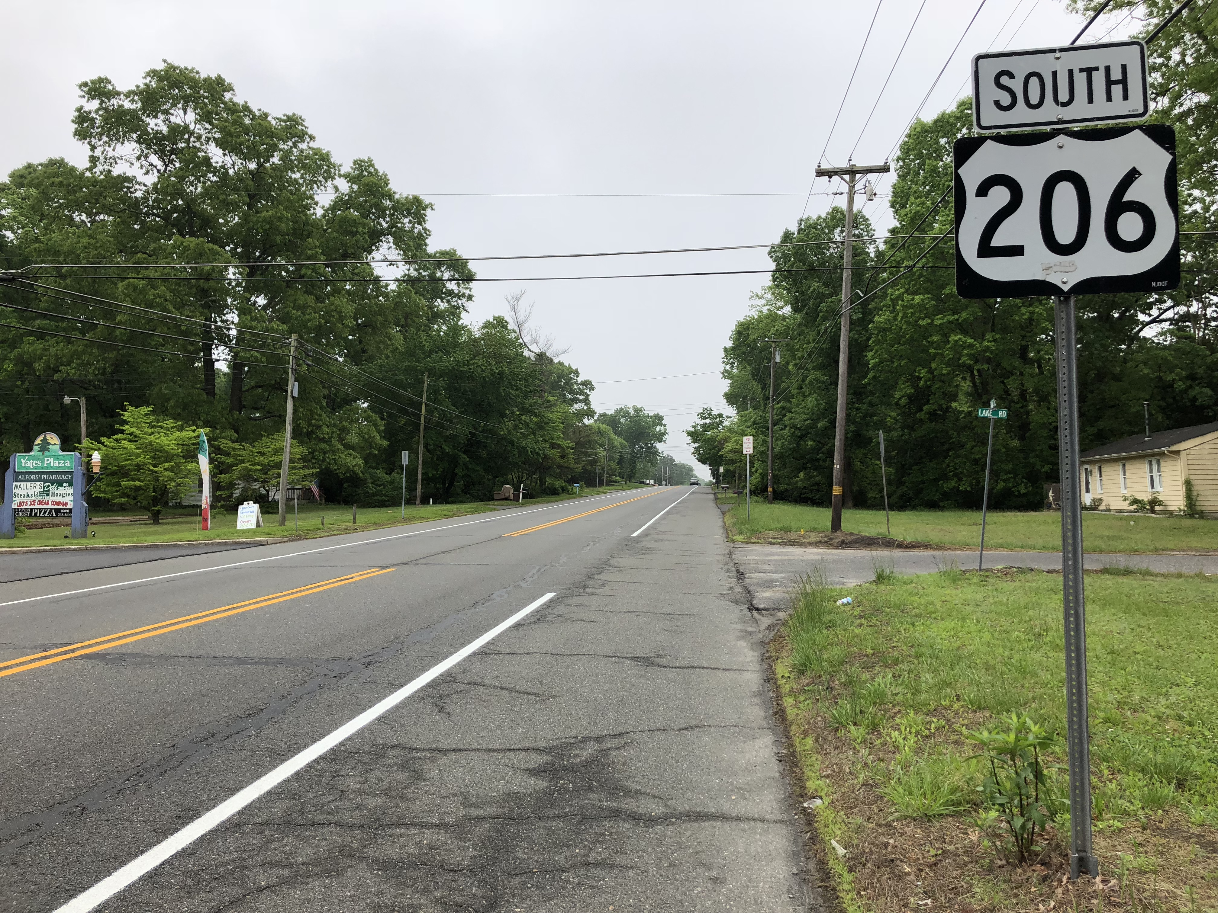 View south along U.S. Route 206 at Lake Road in Tabernacle Township, Burlington County, New Jersey